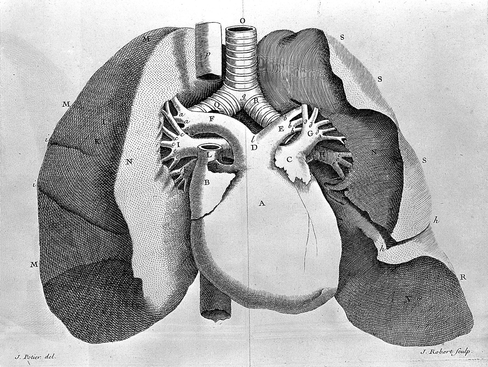 Image of the heart and lungs. Rare Books Keywords: Lungs; Anatomy; Heart; Lung; J. Robert; J. Potier